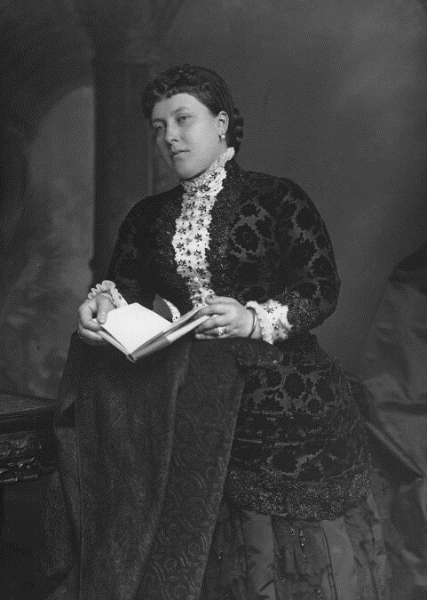 Princess Helena of the United Kingdom (1846-1923), Wife of Prince Christian of Schleswig-Holstein; third daughter of Queen Victoria.